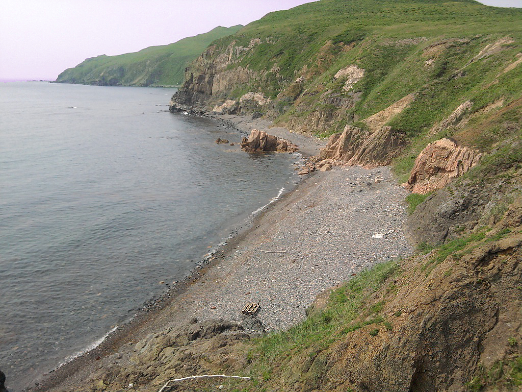 Beach of Isle of Reyneke